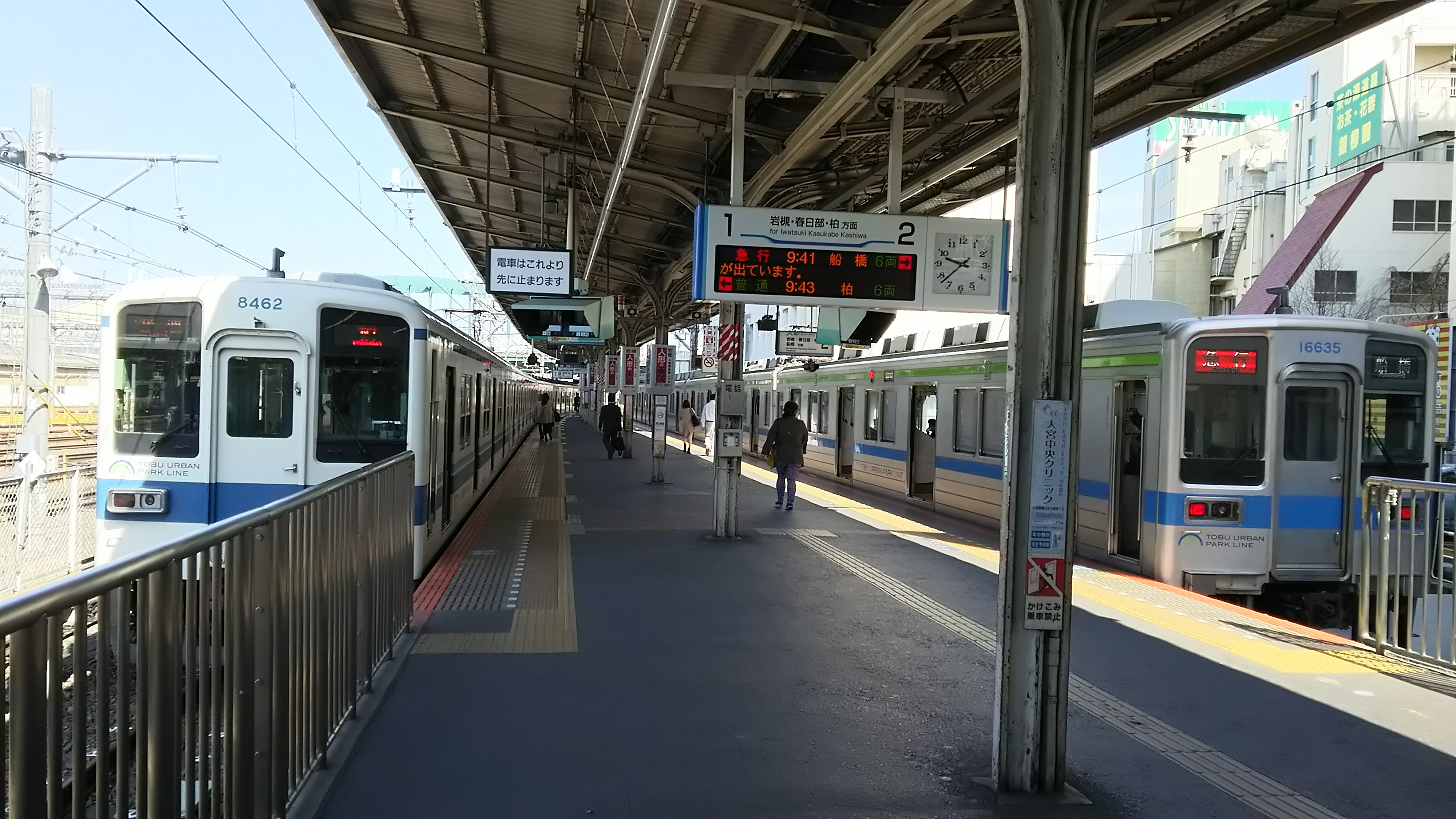 The Tobu Urban Park Line platforms at Omiya Station in Saitama Prefecture, Japan